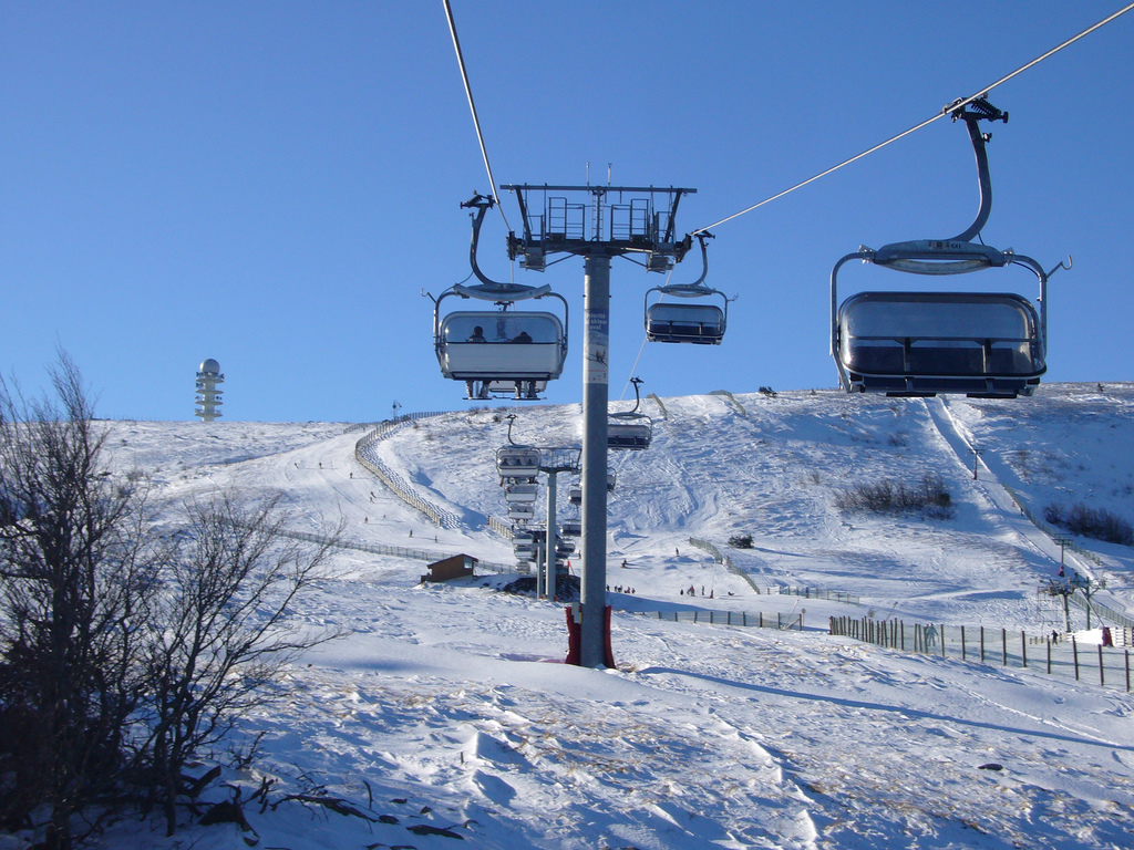 Chalmazel ski resort